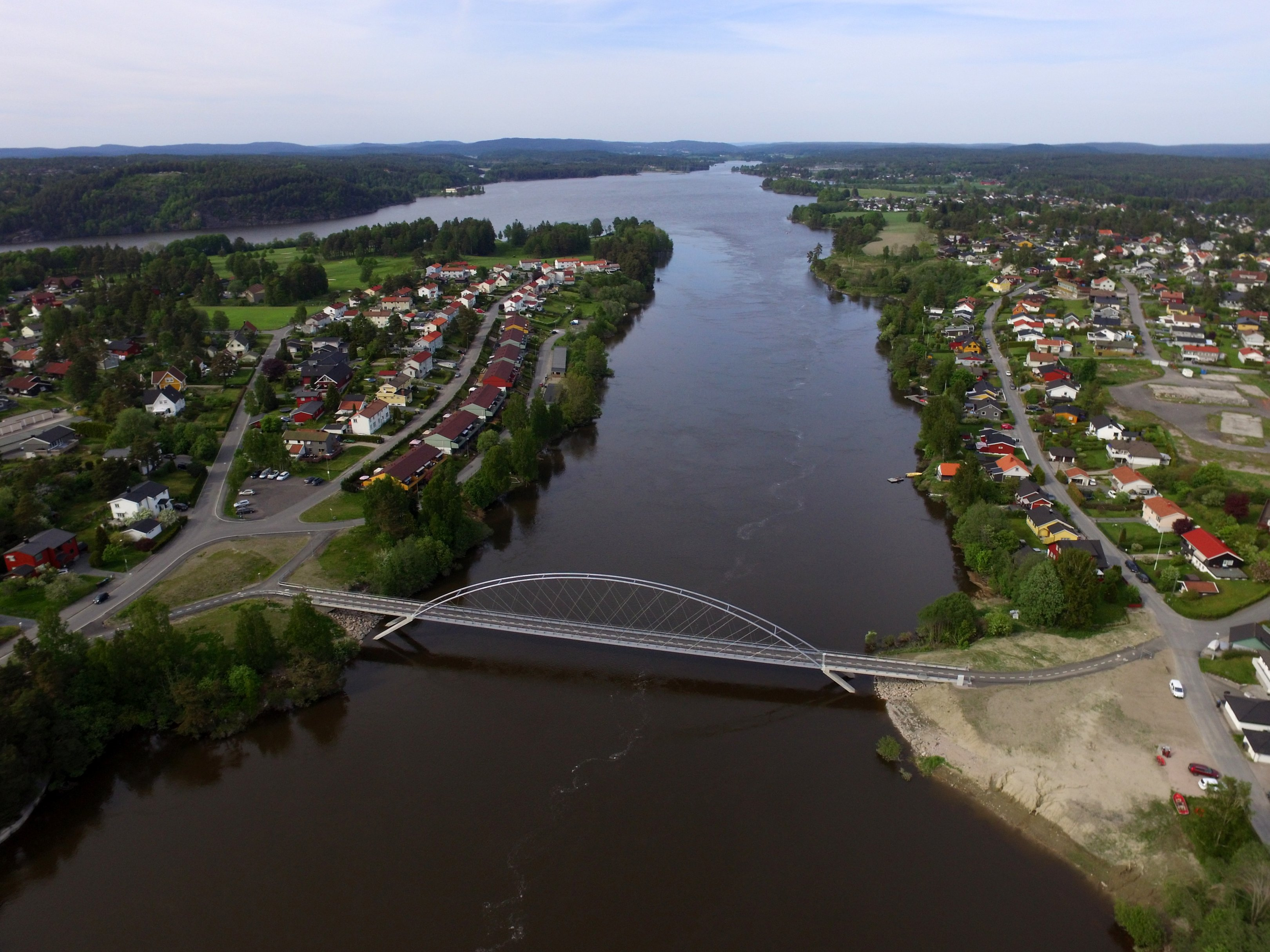 Pedestrian bridge across Glomma between Hafslundsøy (right) and Opsund (left) seen from the south